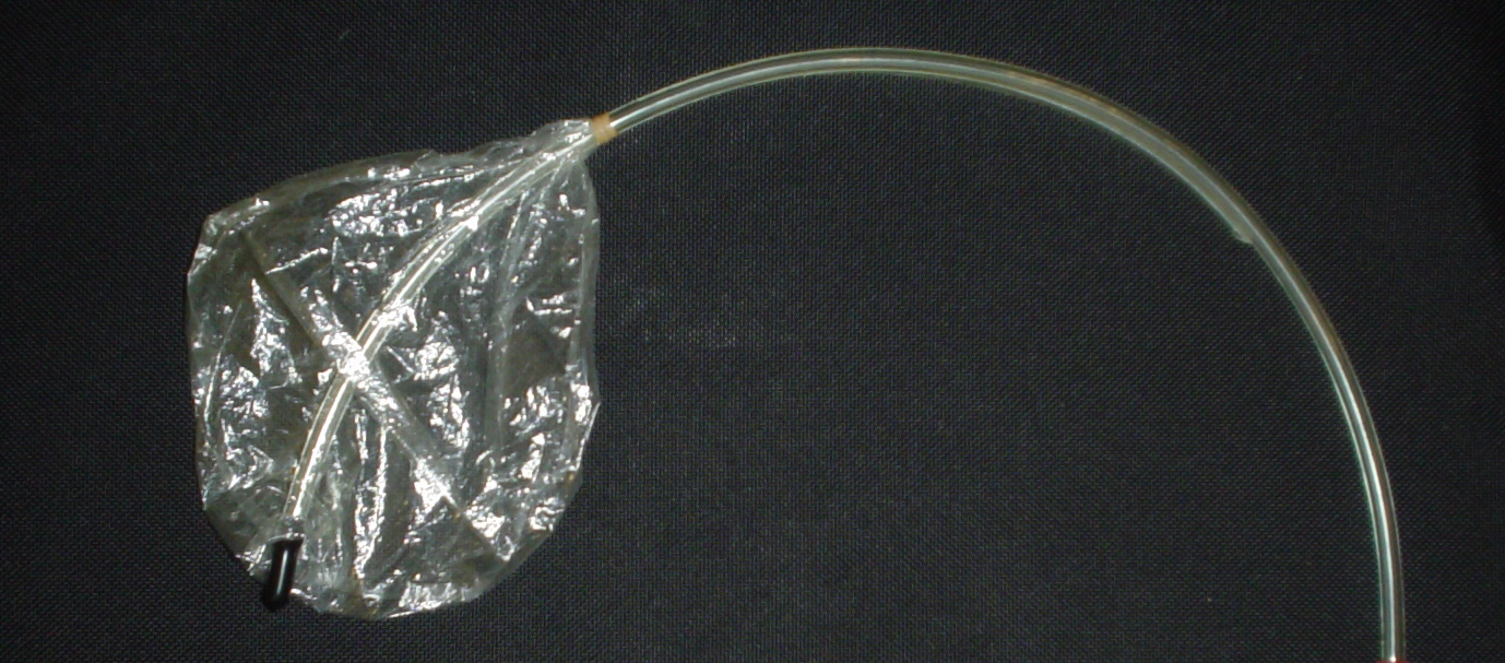 rectal probe for Barostat, balloon partially inflated picture taken by Dbach, 2003